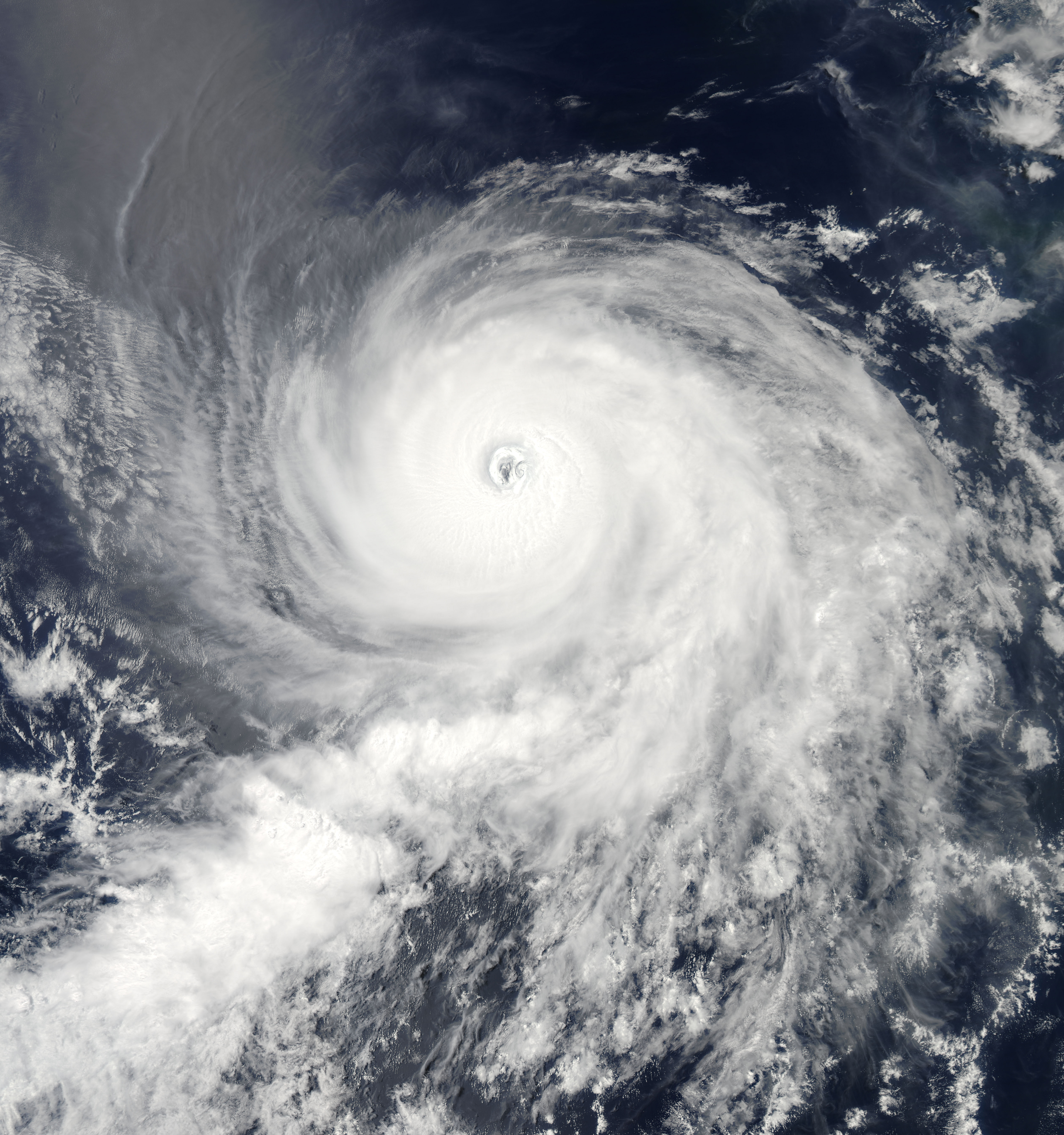 Hurricane Eugene to the southwest of Mexico on August 3, 2011.